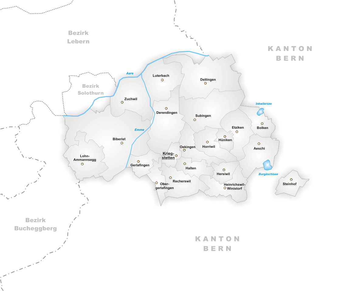 Municipalities of District Wasseramt